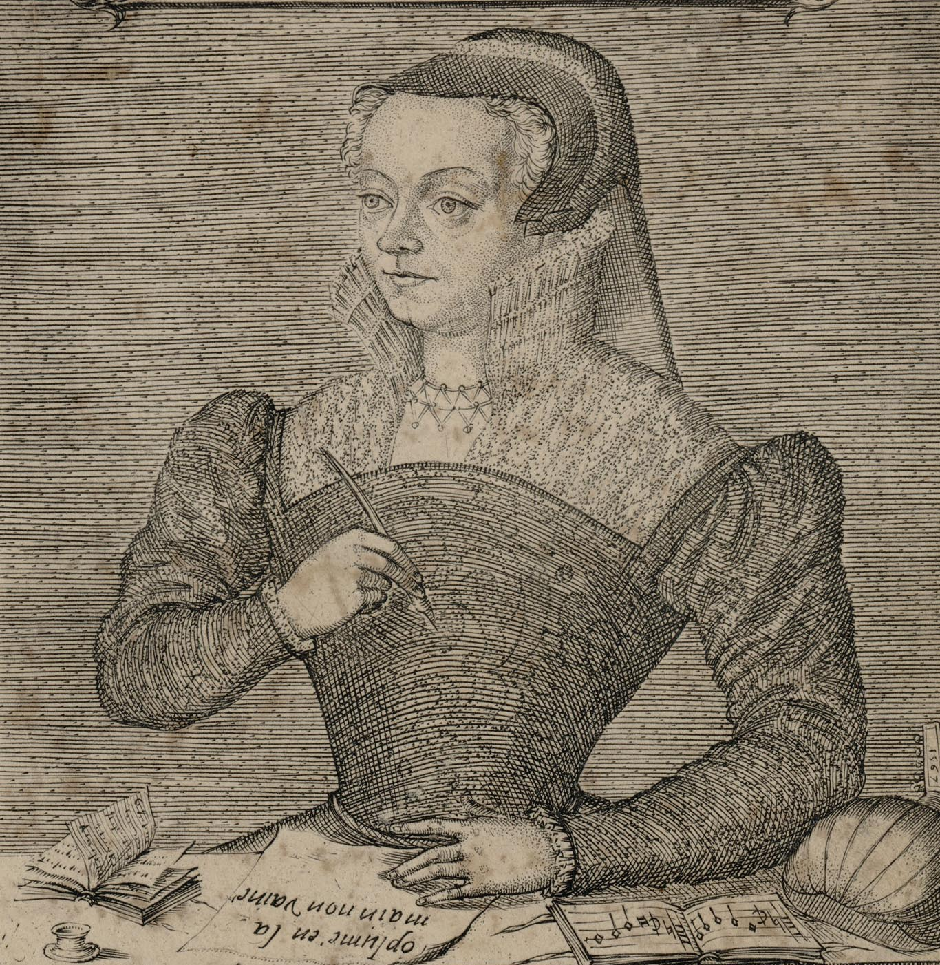 Georgette de Montenay (1540 – ca. 1581), French author of "Emblèmes ou devises chrestiennes", illustrated by Pierre Woeiriot .